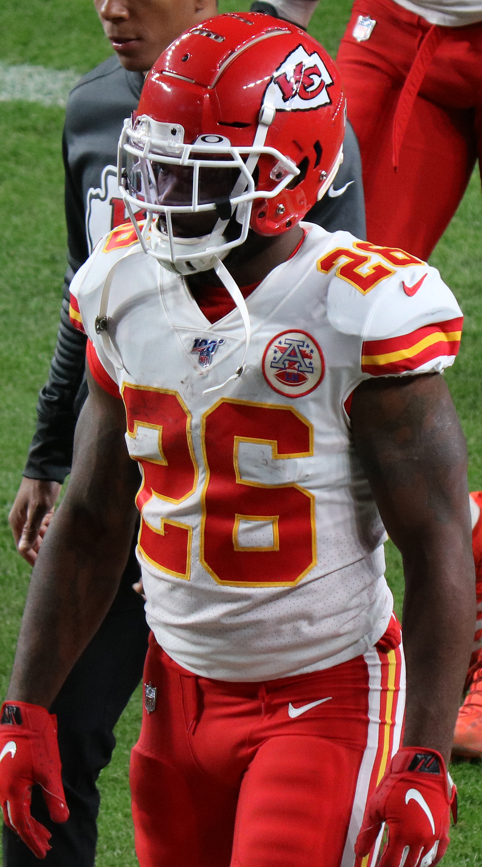 Damien Williams, a National Football League player.